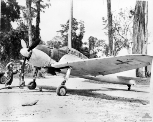 A Japanese A6M3 Model 22 Zero fighter aircraft of the Imperial Japanese Navy. This Zero, serial number 3844, was found intact by Allied forces at Kara airstrip near Buin after the surrender. On 15 September a Wirraway of 5 Squadron RAAF arrived with personnel to make an inspection. The aircraft was clearly airworthy, and had been repainted overall white with green crosses for identification as required under the surrender terms. Wing Commander William Kofoed RNZAF decided to ferry it to the RNZAF airstrip at Bougainville. The Zero remained there until mid-October, when it departed by ship for New Zealand. It is now in the collection of the Auckland War Memorial Museum, New Zealand.